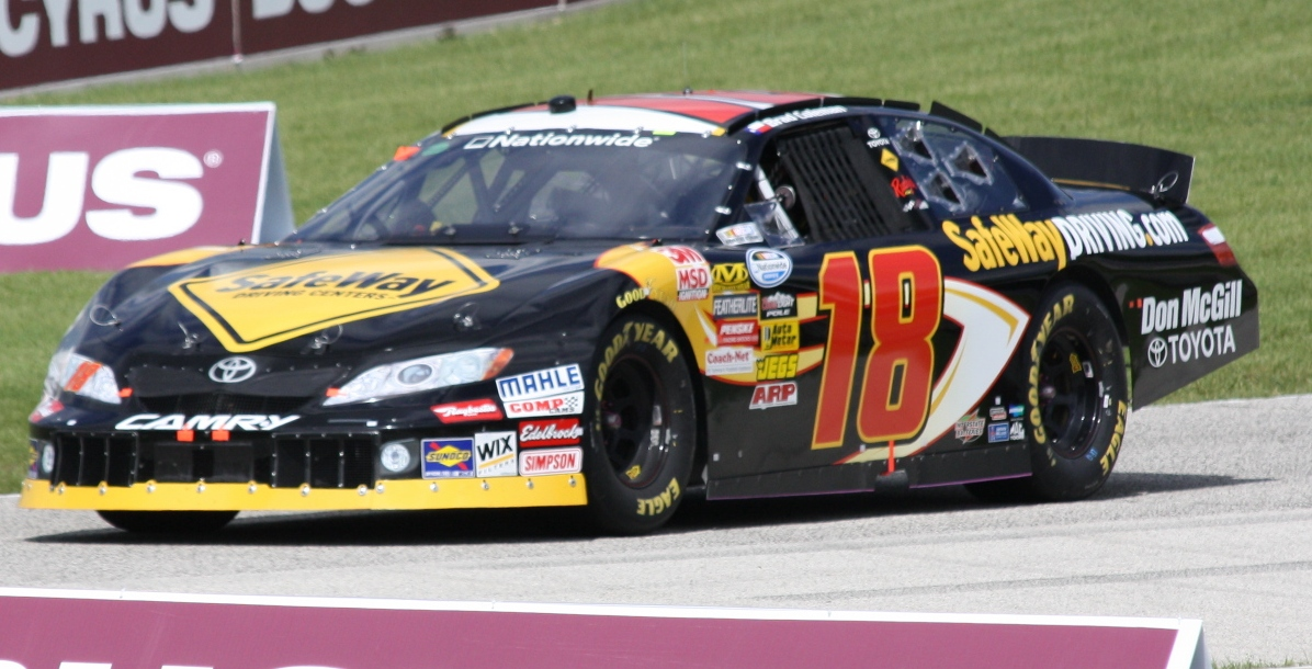 The NASCAR racecar for driver Brad Coleman at the 2010 Bucyrus 200 at Road America.